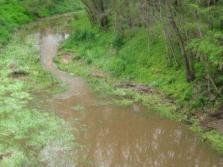 Water running down the River Wakefield, Auburn, South Australia.